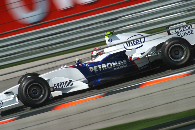 Robert Kubica driving for BMW Sauber at the 2006 United States Grand Prix.